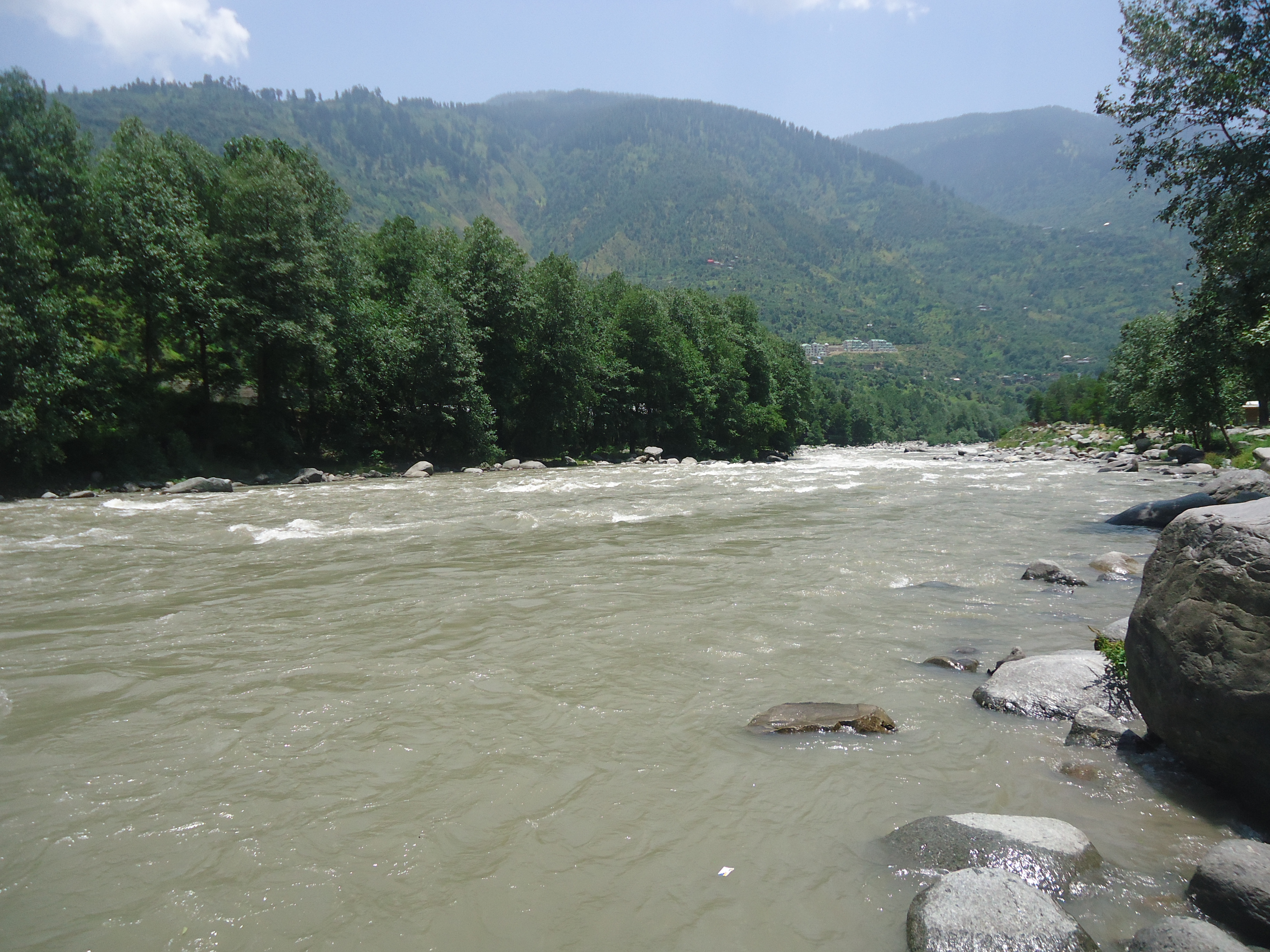 Beas River as seen at from the hill station of Kullu in Himachal Pradesh, India